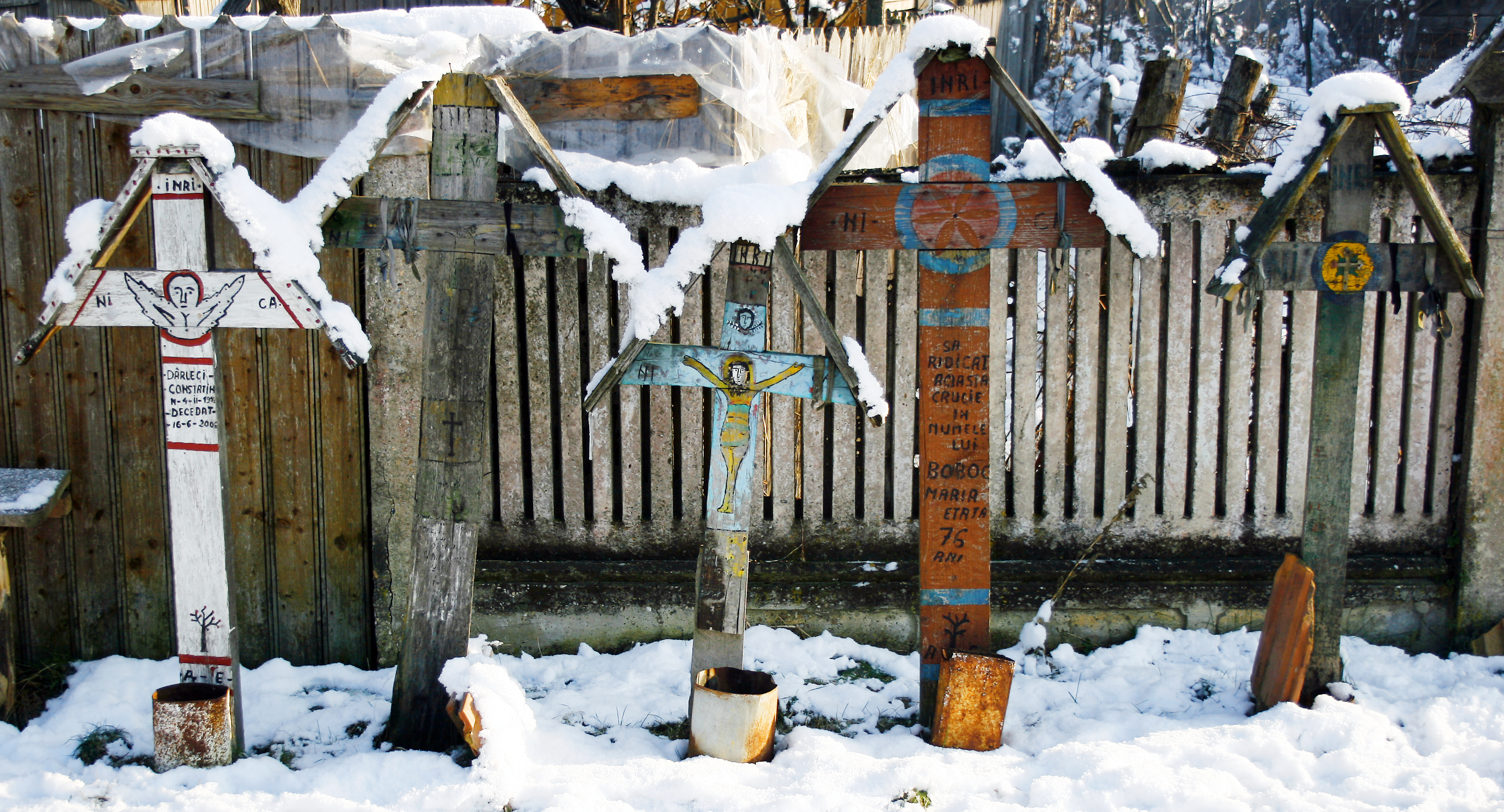 Cruci traditionale din lemn in satul Buciumeni, comuna Dragoiesti, jud. Valcea. In Oltenia, in satele traditionale, este comun obiceiul de a ridica cruci la rascruce de drumuri, la fanatani, etc.